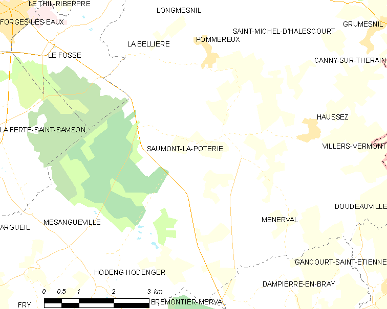 Map of French municipality Saumont-la-Poterie